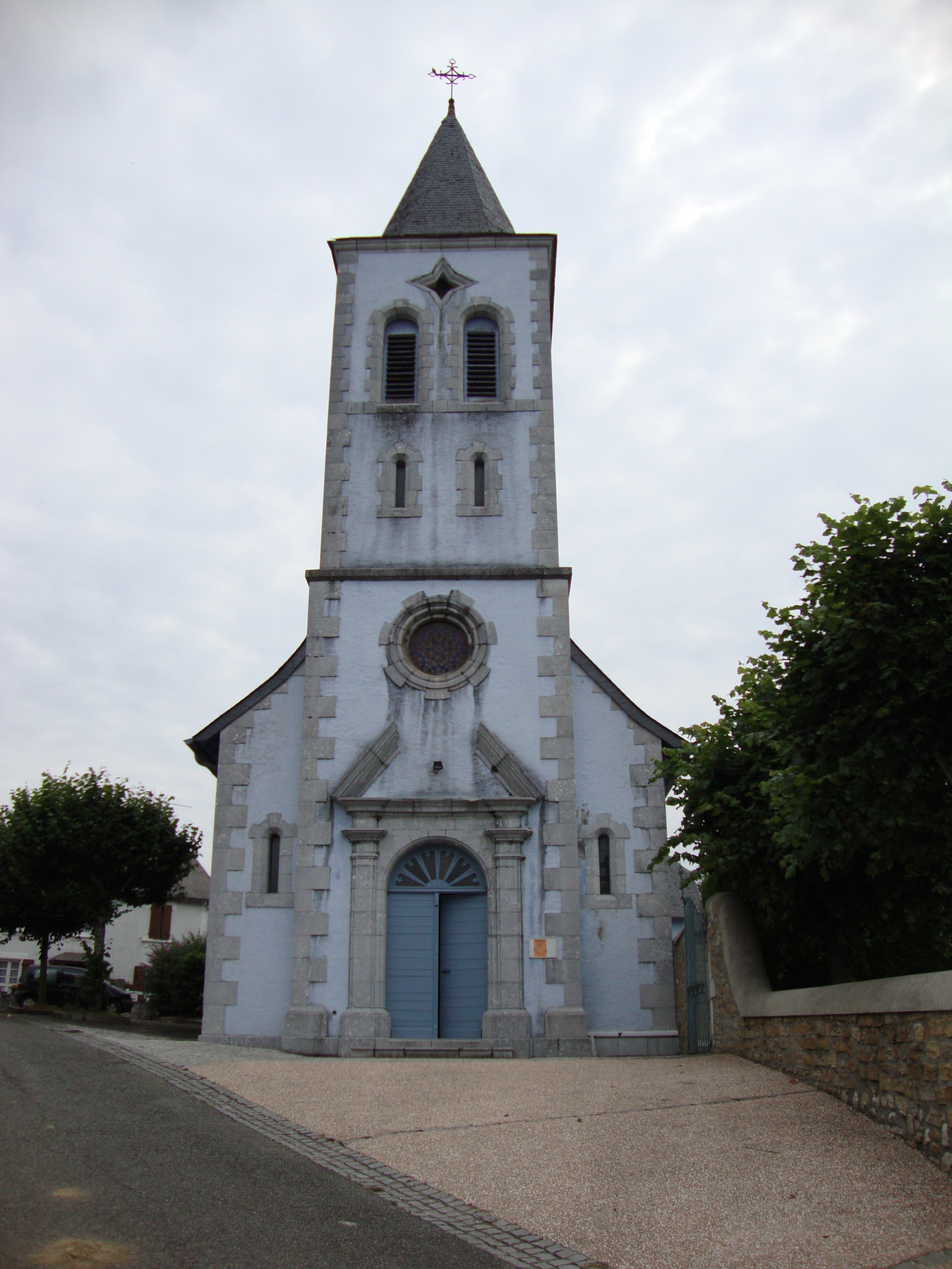 Estialesq (Pyr-Atl, Fr) church facade and tower